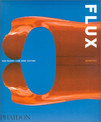 Asymptote_Flux_Cover